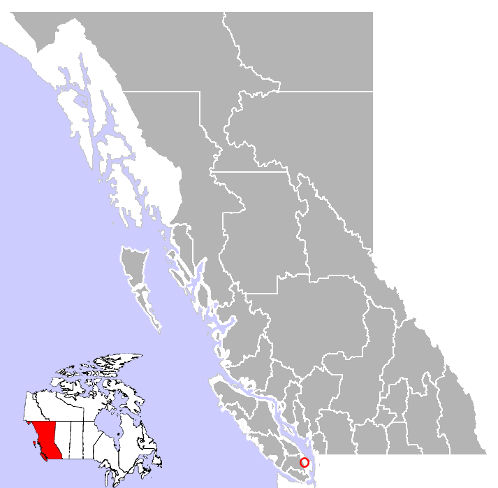 Location of Crofton, British Columbia